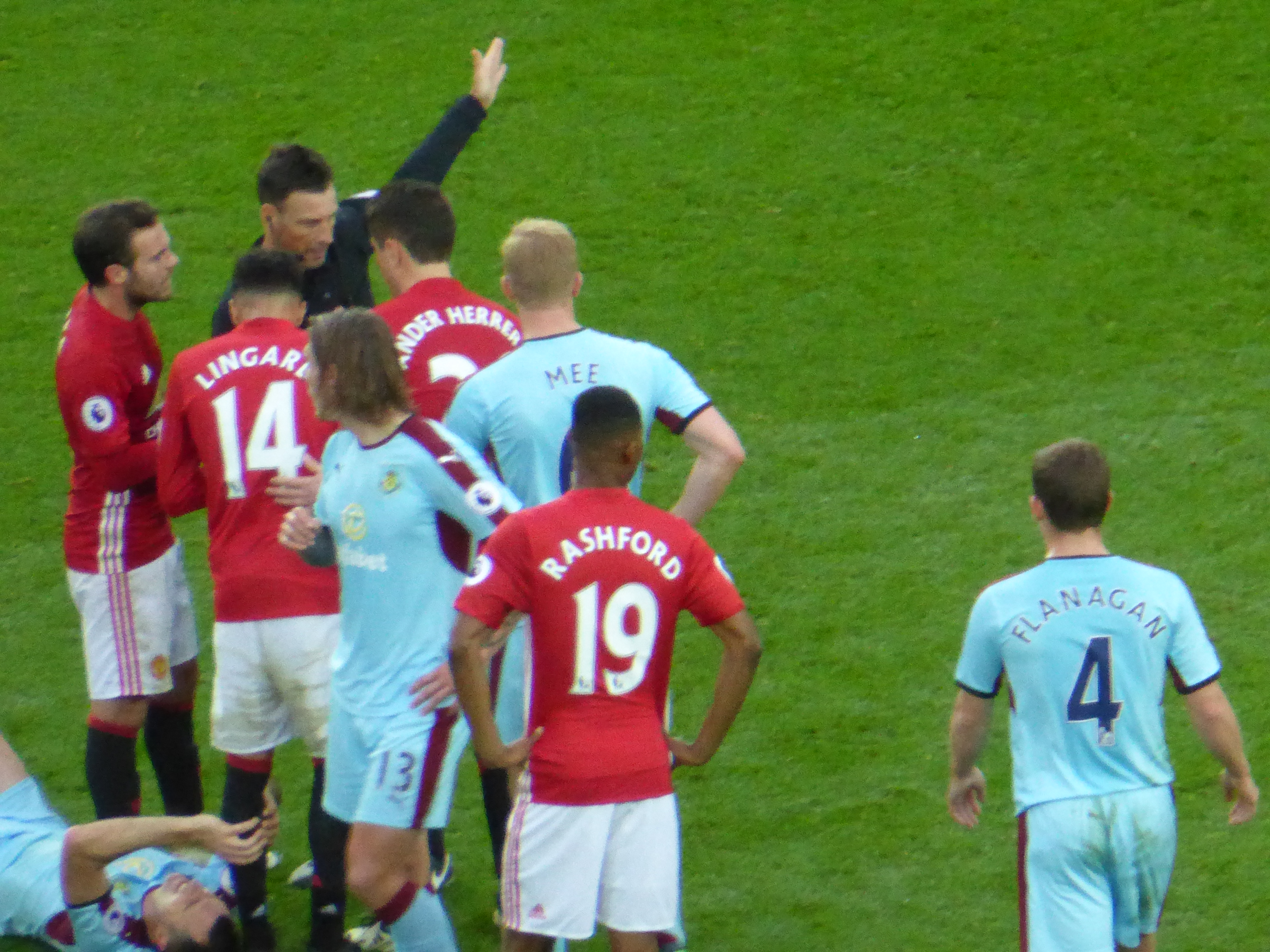 Manchester United v Burnley (0-0), Premier League, Old Trafford, Manchester, Greater Manchester, England, October 2016